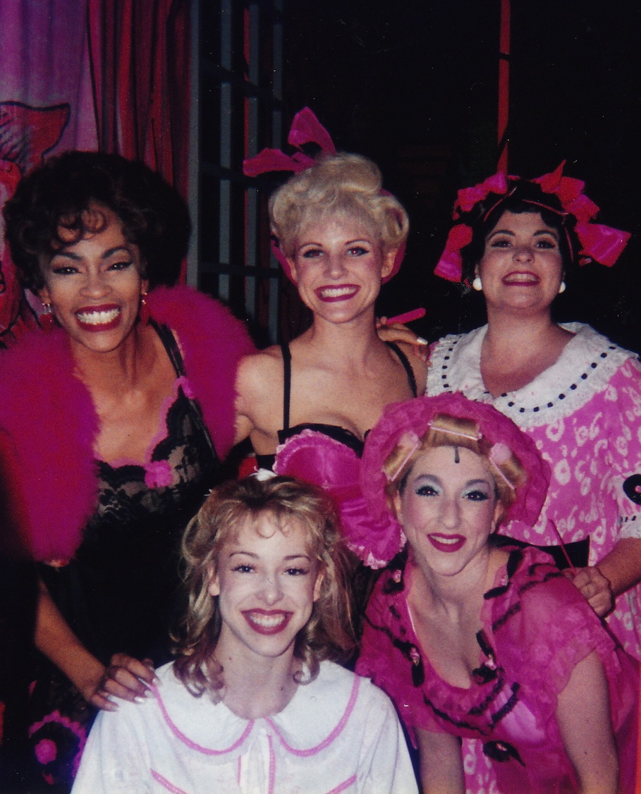 Jody Watley as Rizzo on Broadway in 1996 with cast members in the hit musical GREASE!